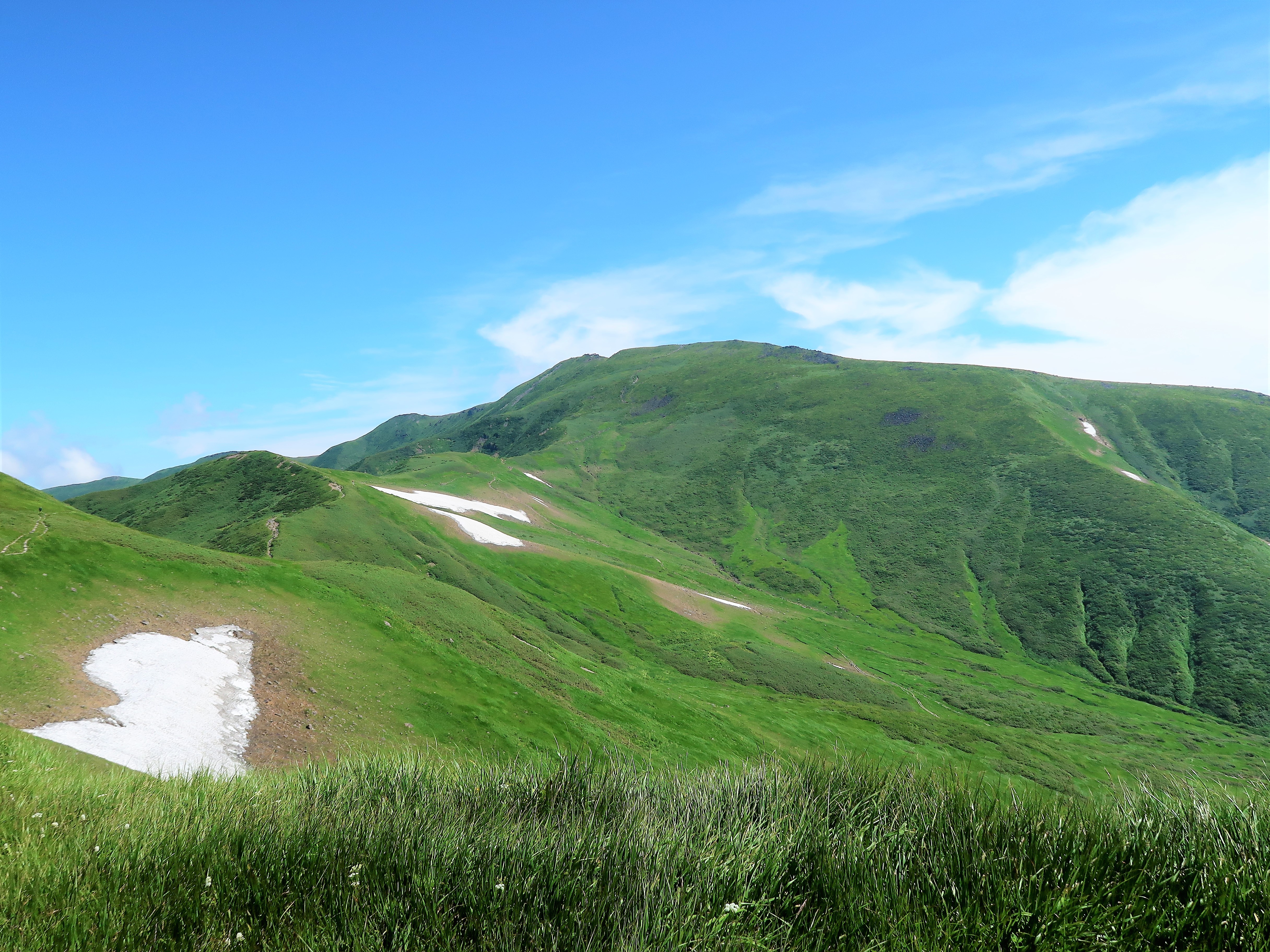 Mount Gassann, Yamagata pref., Japan